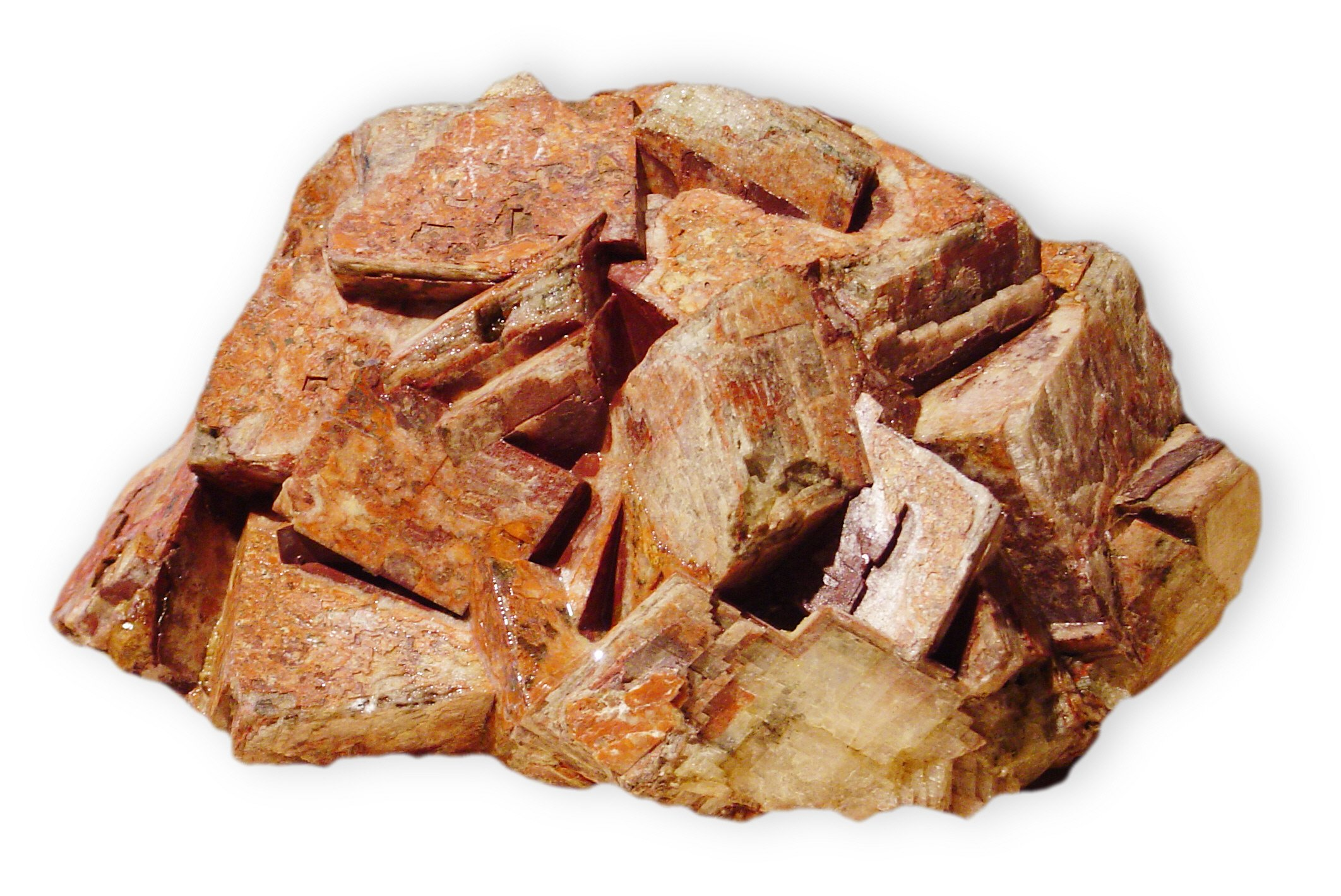 These mineral images are free to use how you wish.